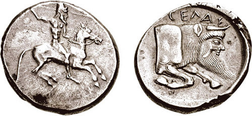 SICILY, Gela. Circa 510-500 BC. AR Didrachm (8.68 gm, 12h). Nude warrior on horseback right, wearing conical cap and brandishing a spear overhead in his right hand / CELAS, forepart of man-headed bull right.